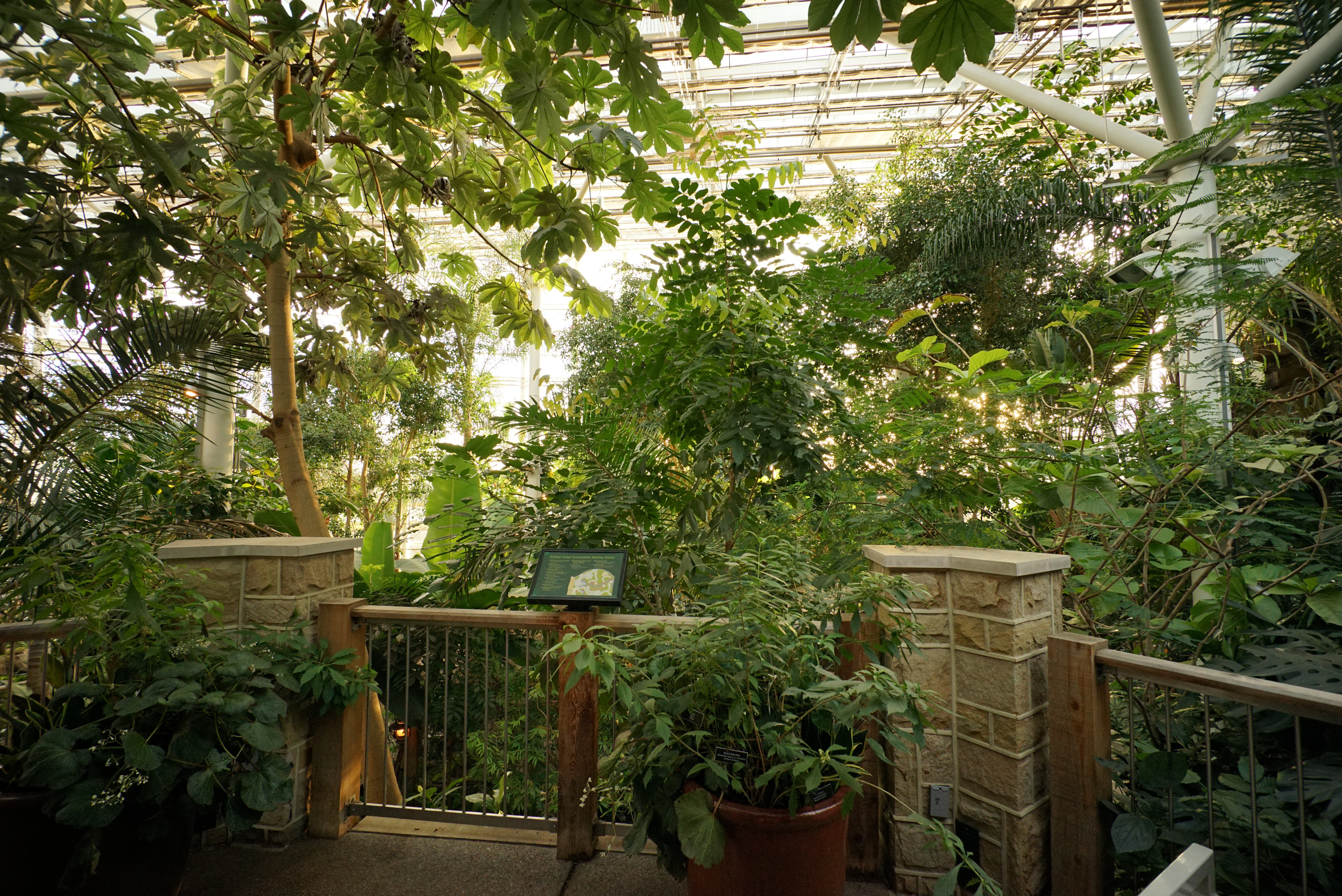 The tropical forest conservatory at the Phipps Conservatory and Botanical Gardens